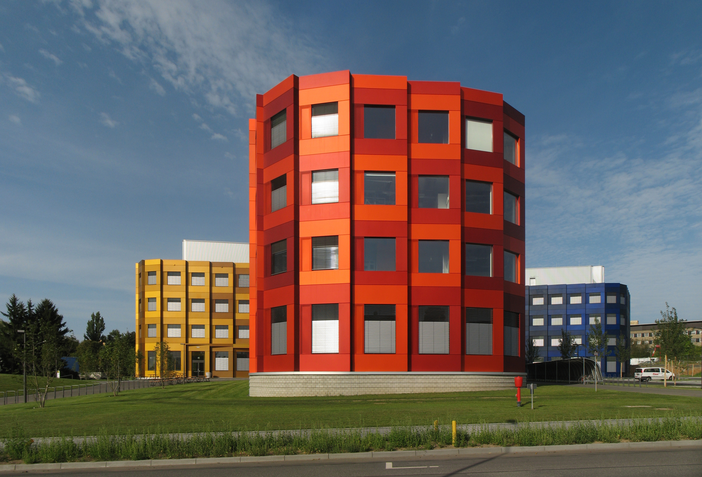 Biomedical Research Centre Seltersberg of Giessen University seen from the West.